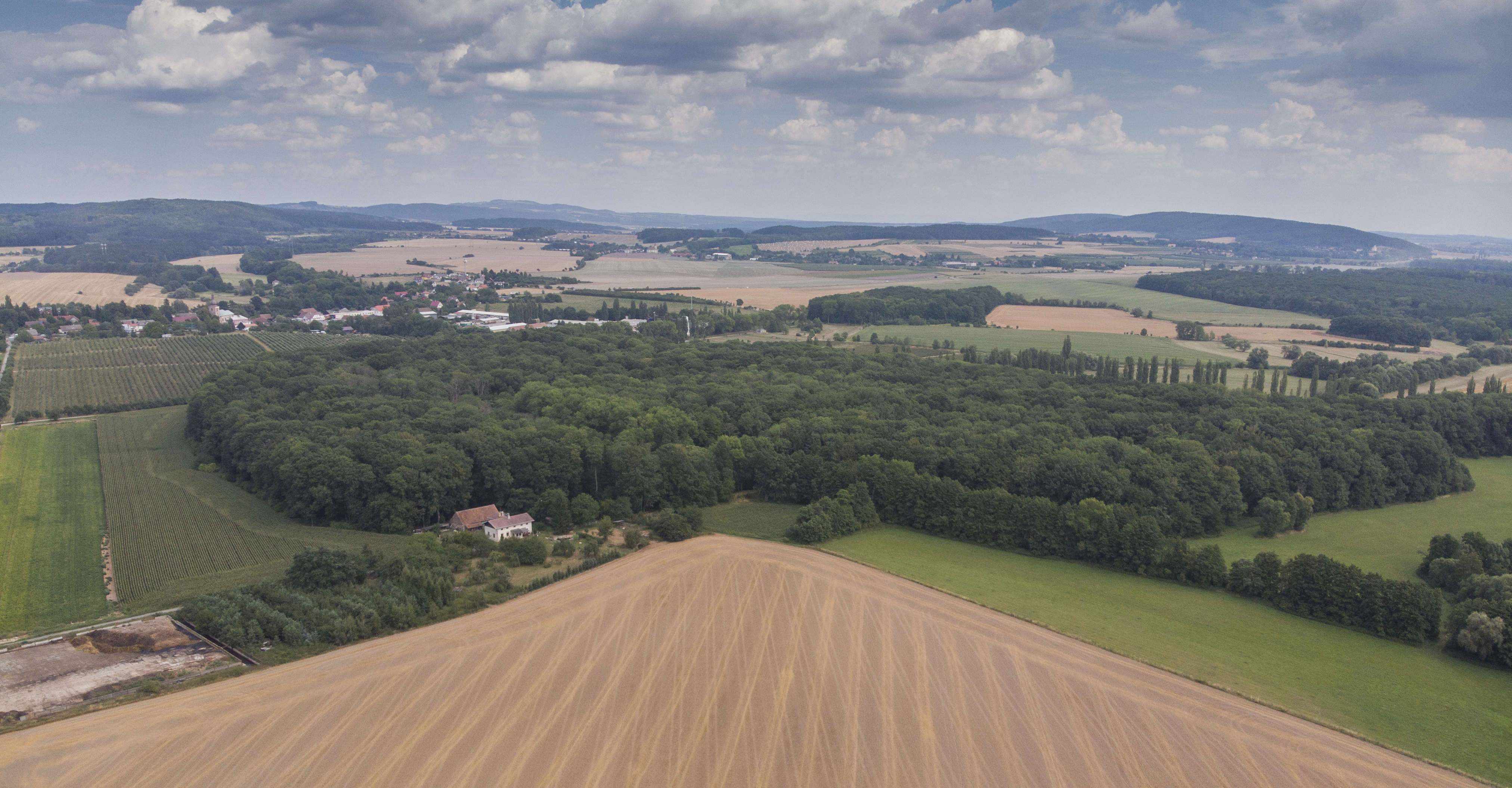 Ulibicka bazantnice nature reserve, Czech Republic